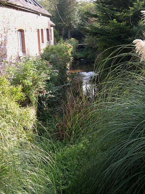 Ventongimps Mill and stream. This scene probably looks a lot prettier now than when the mill was working.